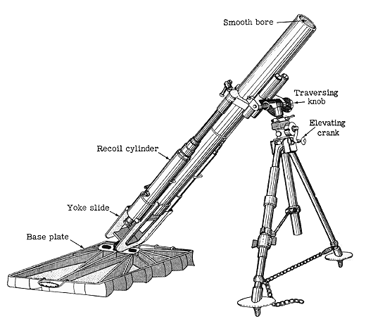 Japanese Type 94 90mm Infantry Mortar. From the Second World War. from a US-Army technical manual and thus : from scanned by: Patrick Clancey